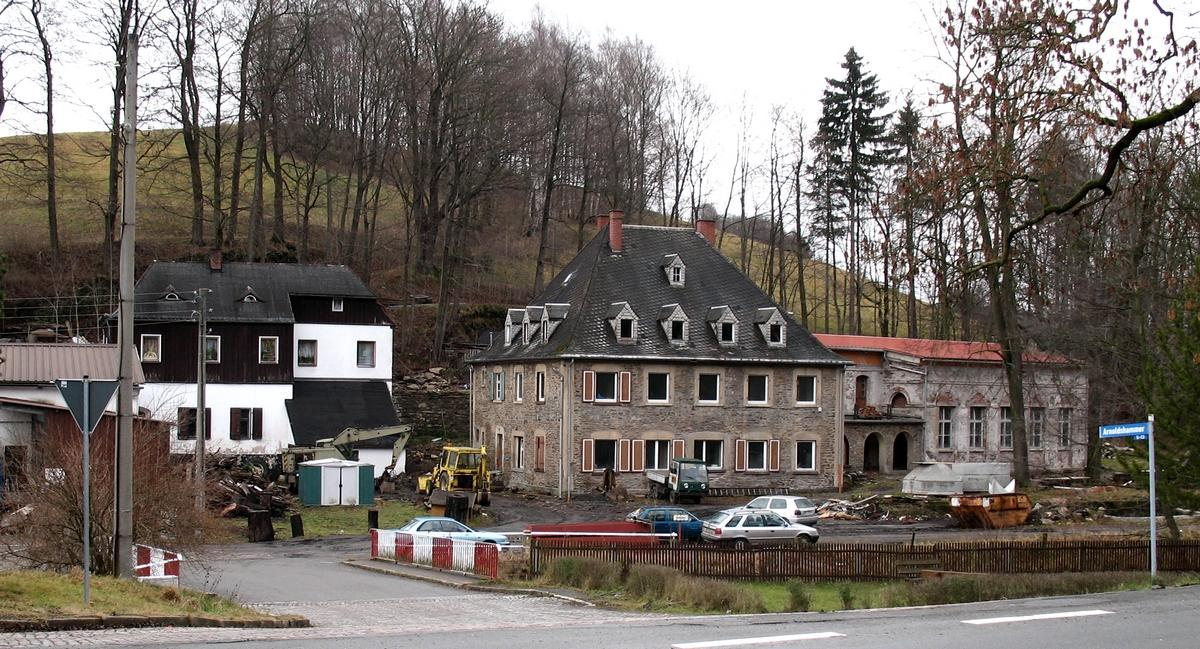 Ehemaliger Gasthof Arnoldshammer